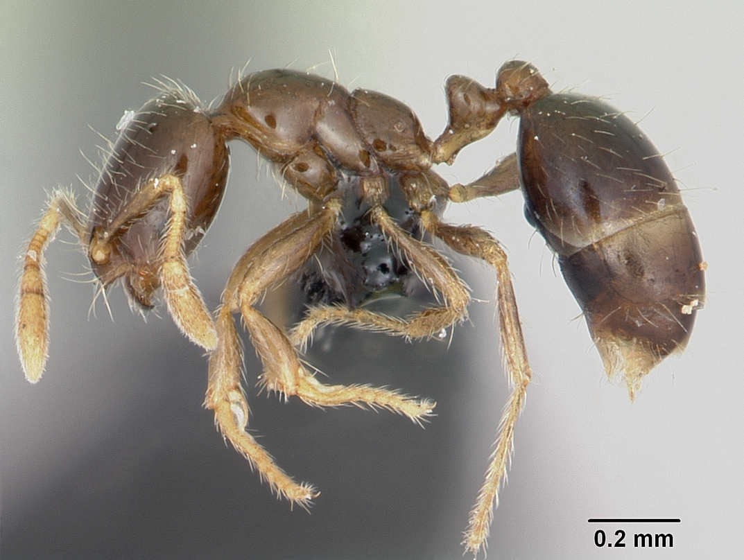 Profile view of ant Solenopsis mameti specimen casent0064819.